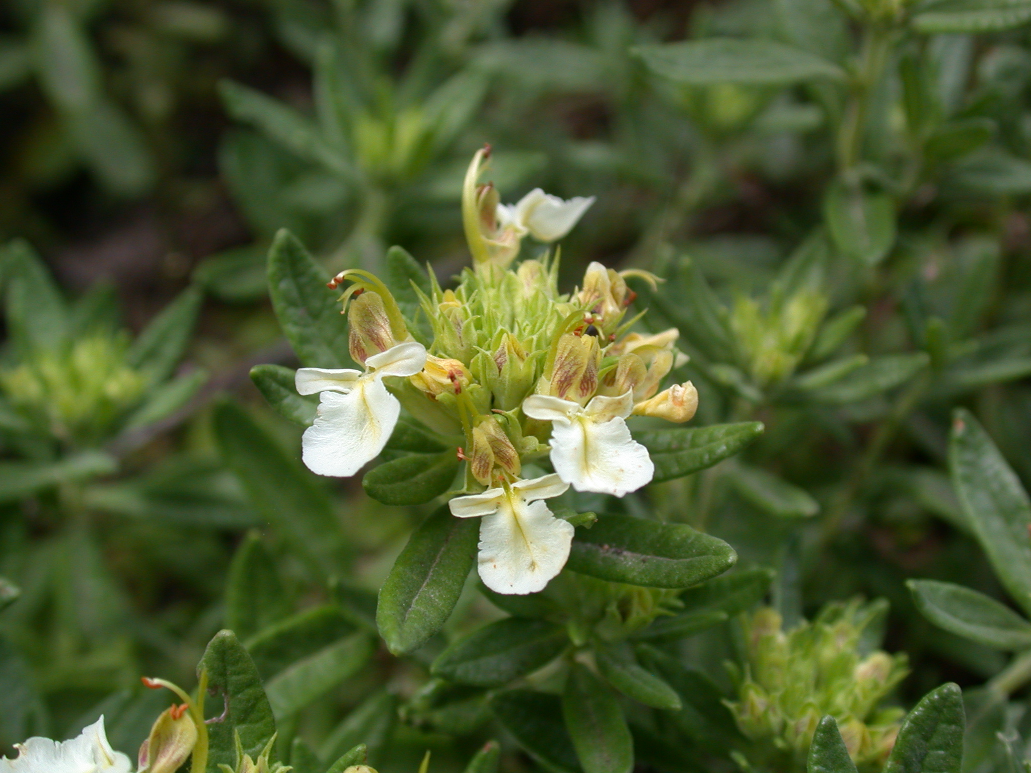 Teucrium montanum (Lamiaceae); Felseck near Biel, Canton of Bern, Switzerland